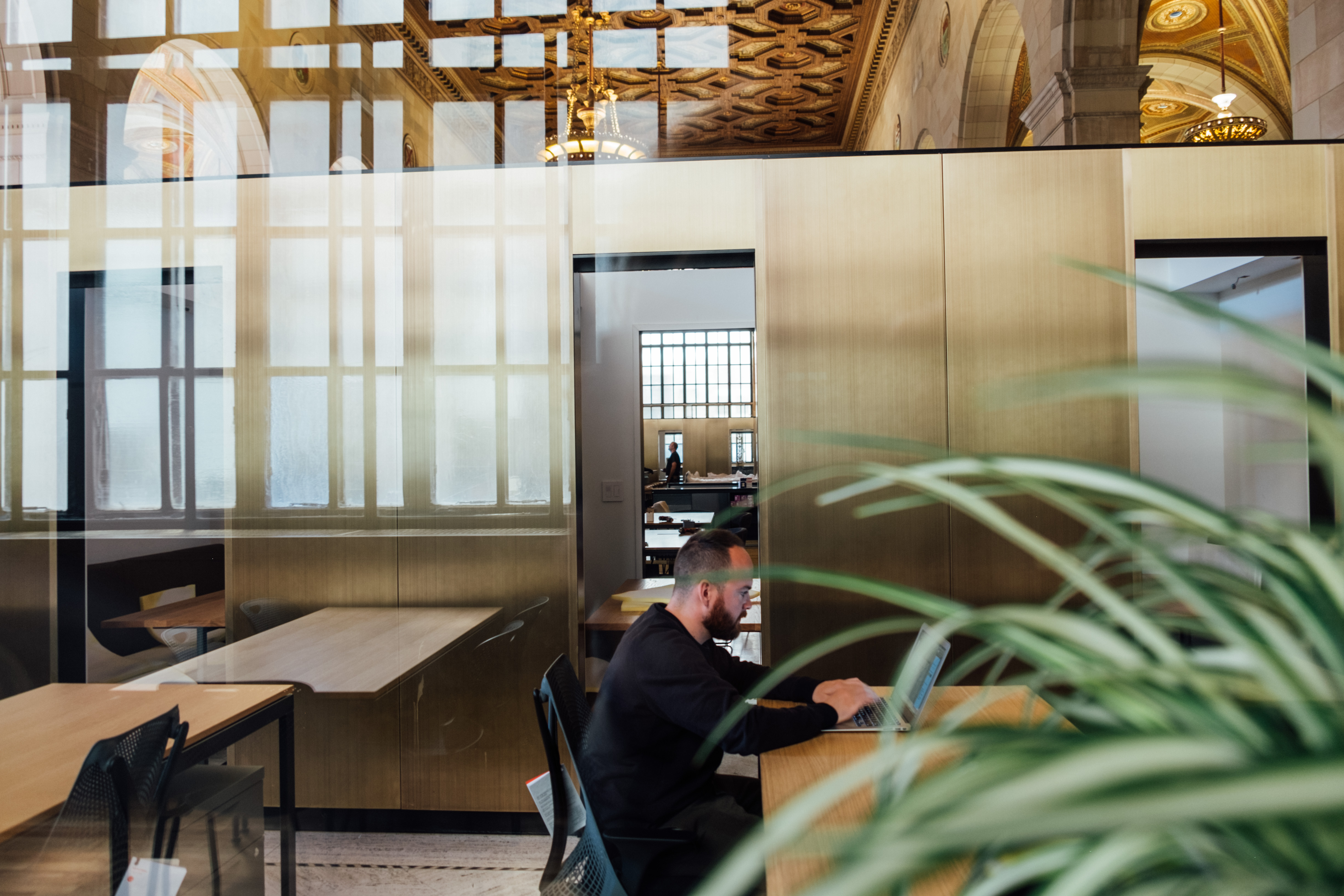 360 Rue Saint-Jacques, Montréal, Canada